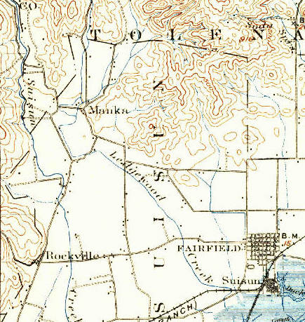 Mankas' Corner, Calif in 1902